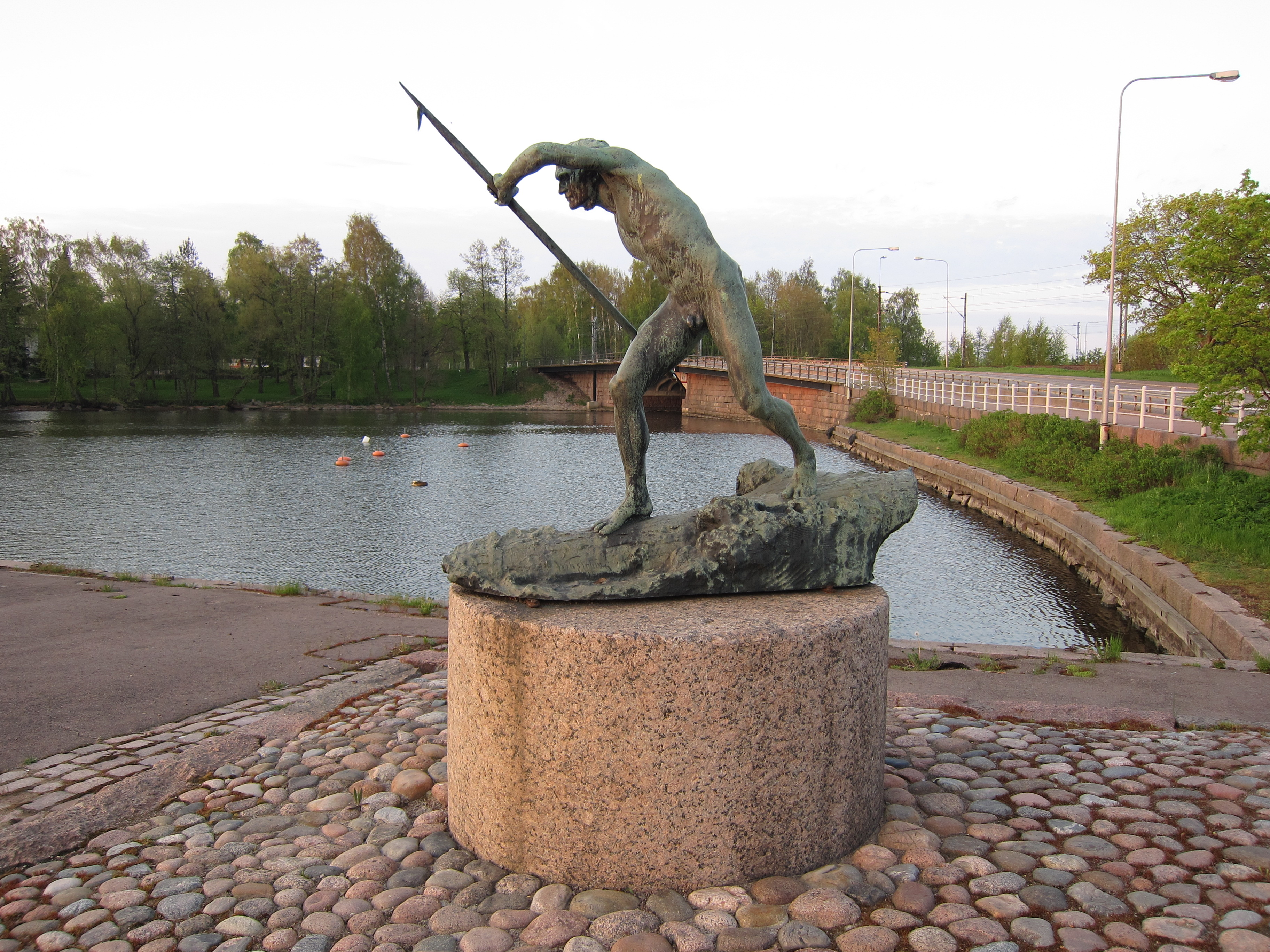 The 1952 bronze copy by Arttu Halonen of the Tukinuittaja sculpture (1890) by Emil Wikström in Kotka, Finland.